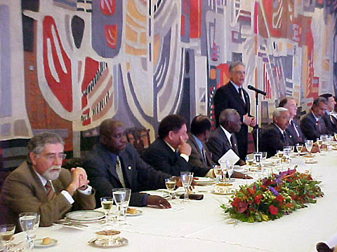 President Fernando Henrique Cardoso of Brazil speaks at a high-level meeting of the South Atlantic Peace and Cooperation Zone, held in Brasí­lia.